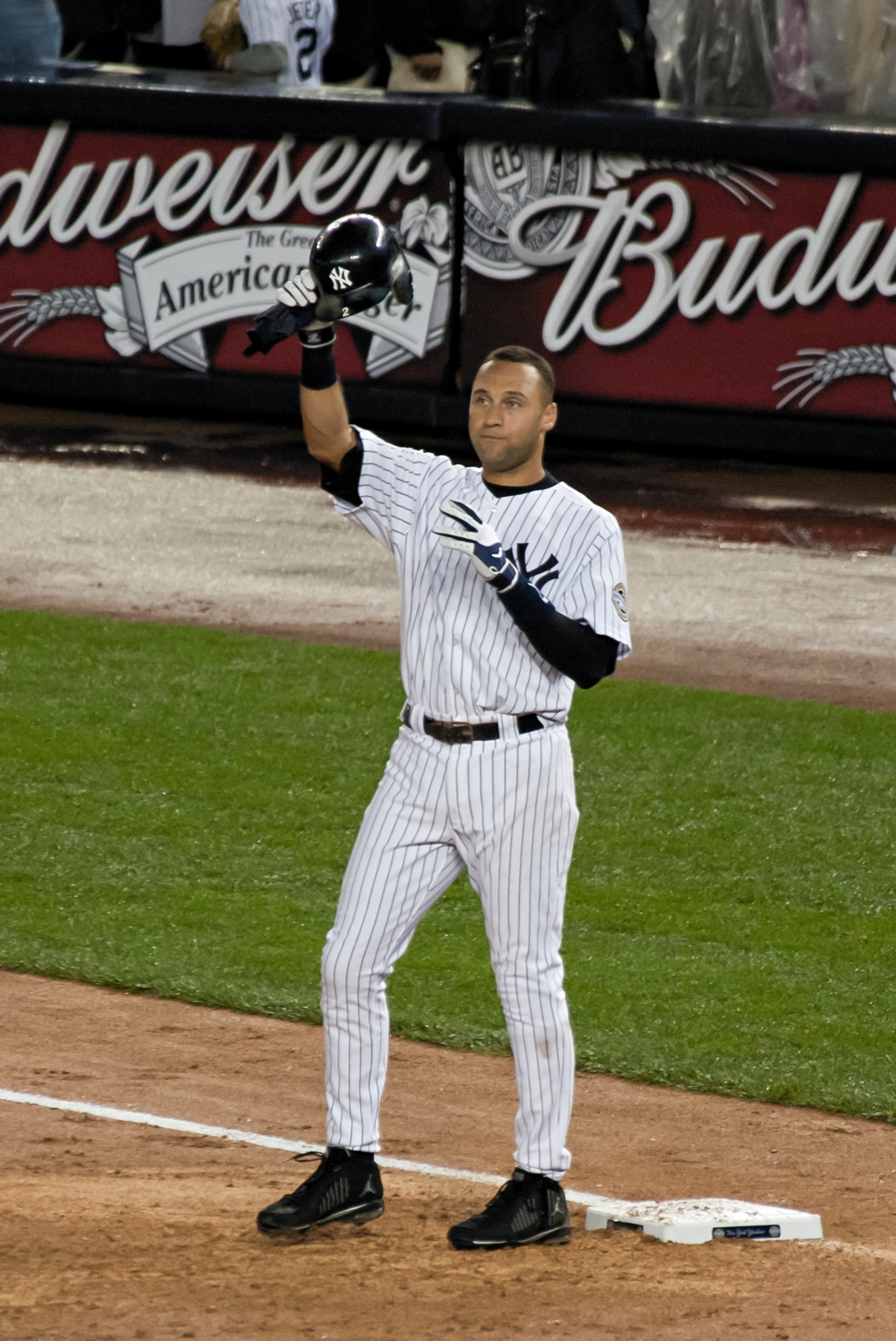 Derek Jeter salutes the Yankee Stadium crowd after recording his 2,722nd hit, breaking Lou Gehrig's New York Yankees franchise hit record.